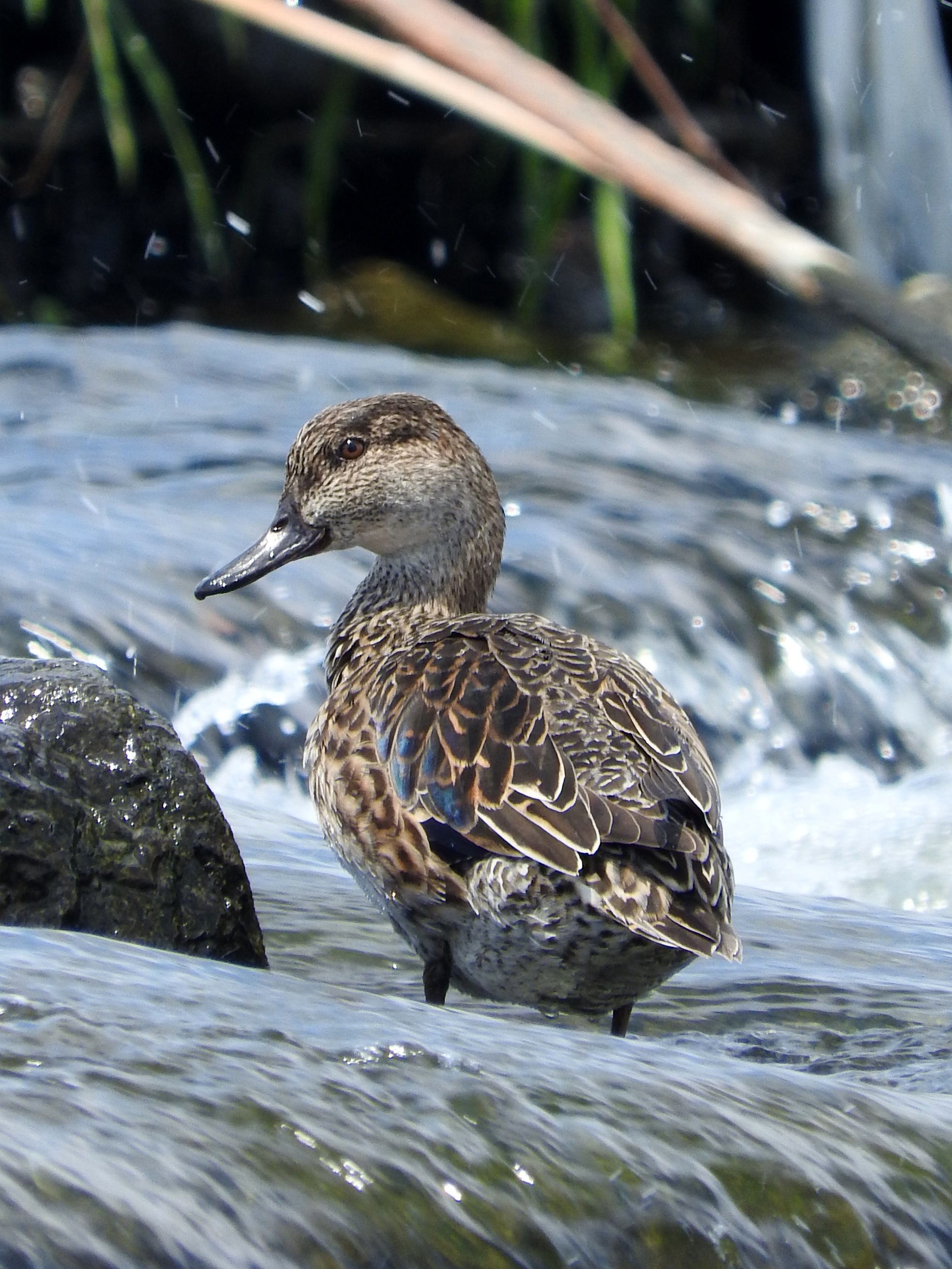 A female Eurasian teal feeding in the Tama river between Tokyo and Kanagawa prefectures